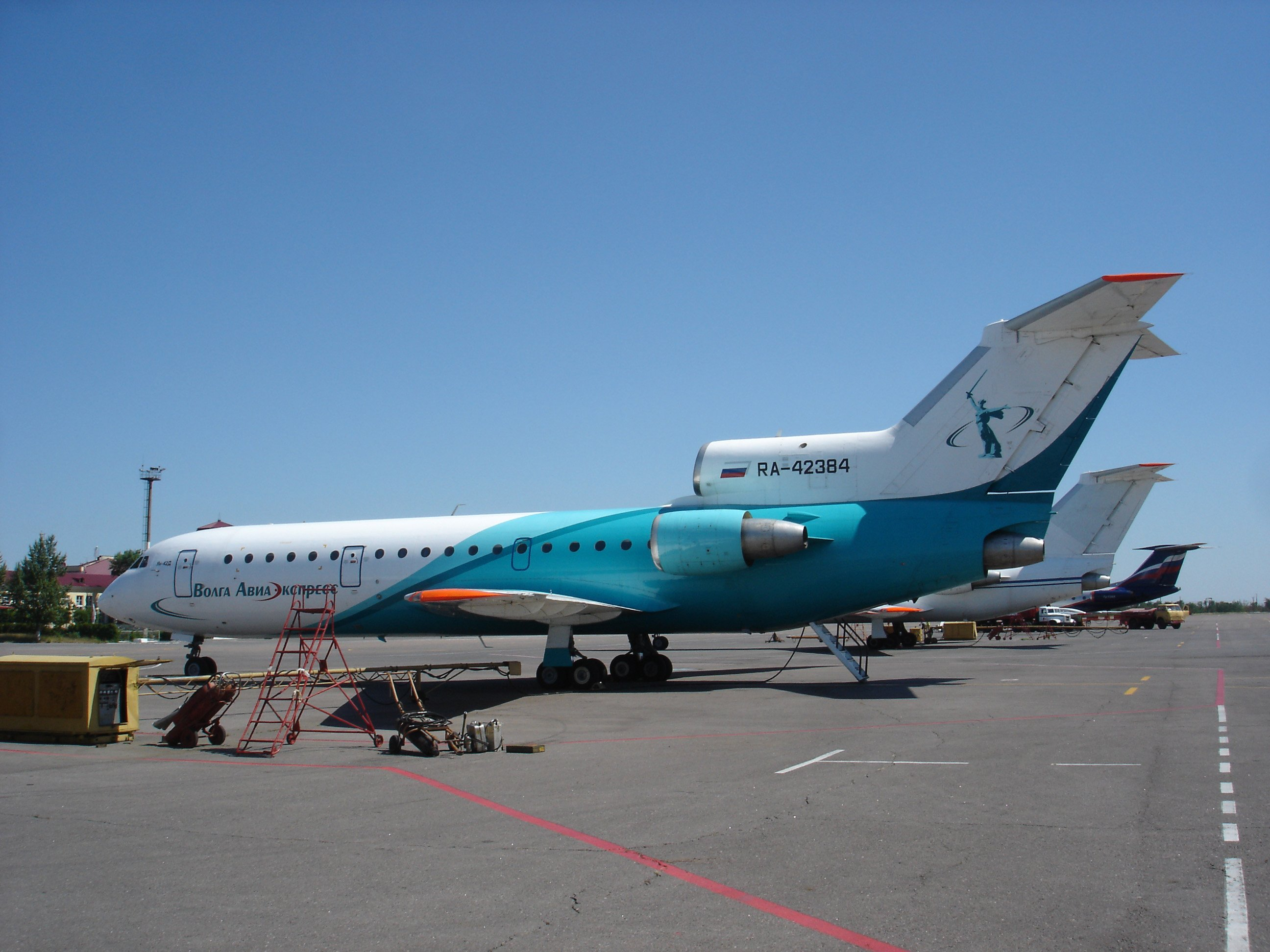 Volga-Aviaexpress Yak-42 (RA-42384) at Volgograd International Airport.